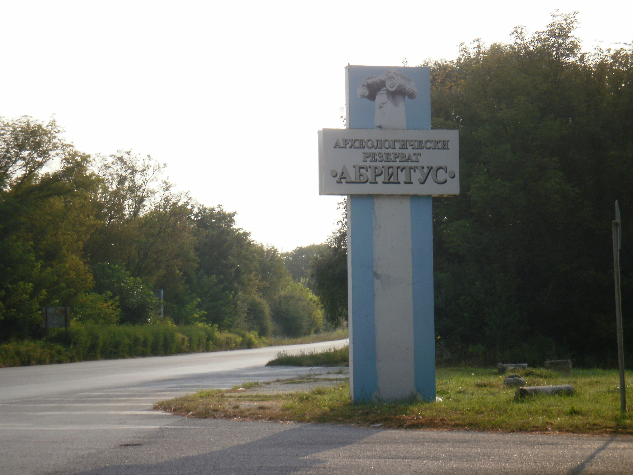 Abrittus, Bulgaria.